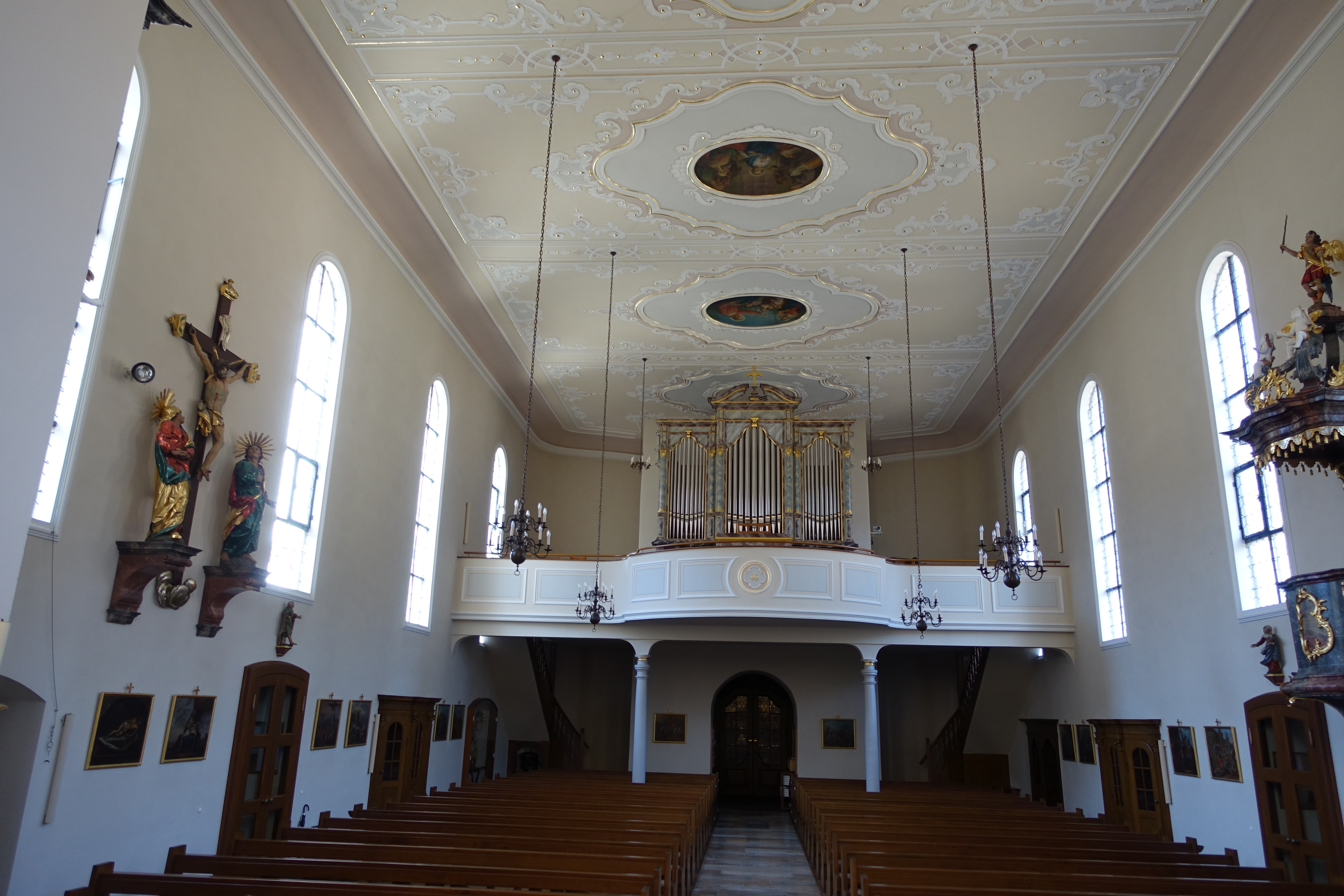 Oberwolfach St. Bartholomäus:Interior to West